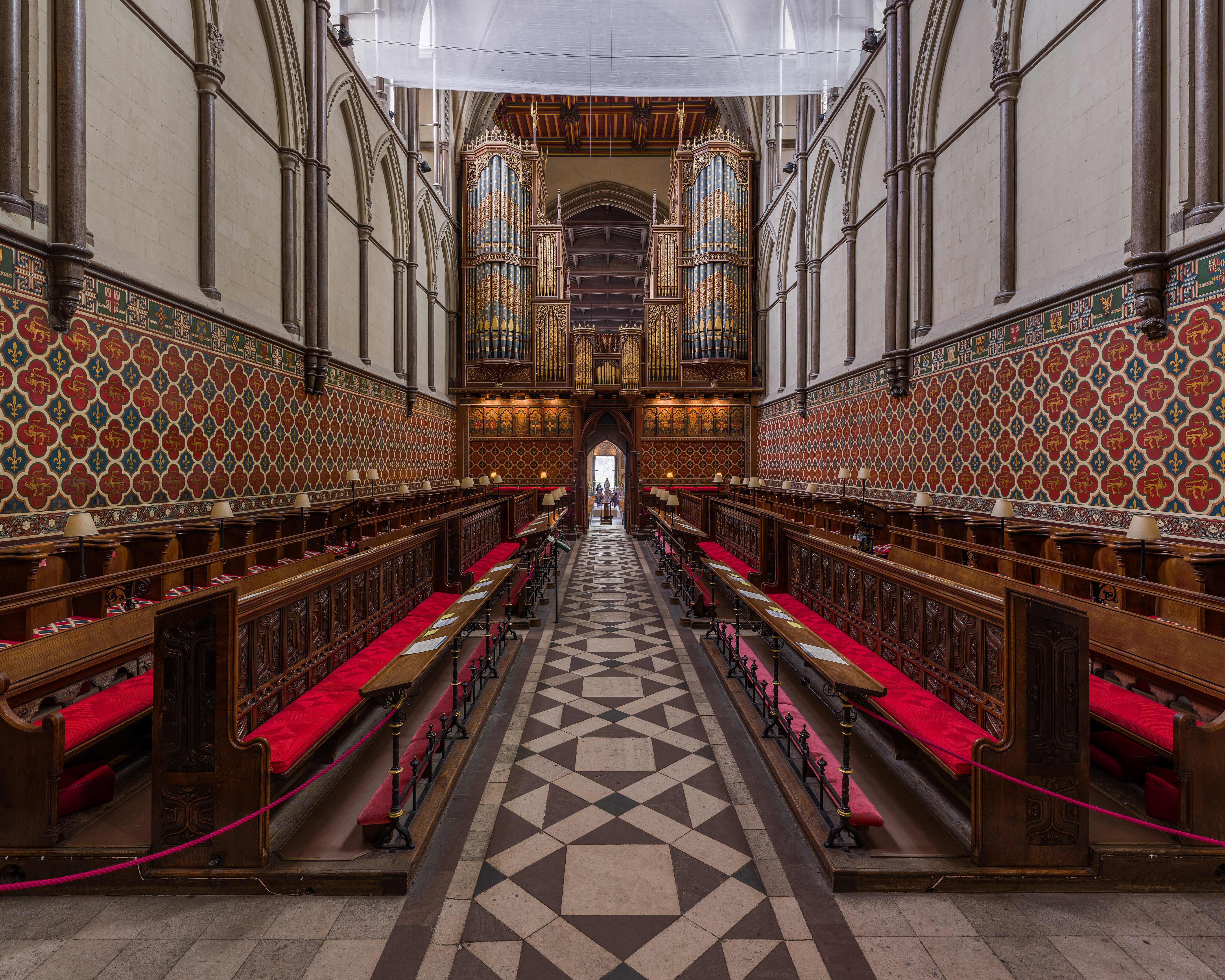 The choir of Rochester Cathedral in Kent, England. At the top of the image is a cloth screen to stop particles from falling onto the choir area from the ceiling (this is the result of water damage, I believe)